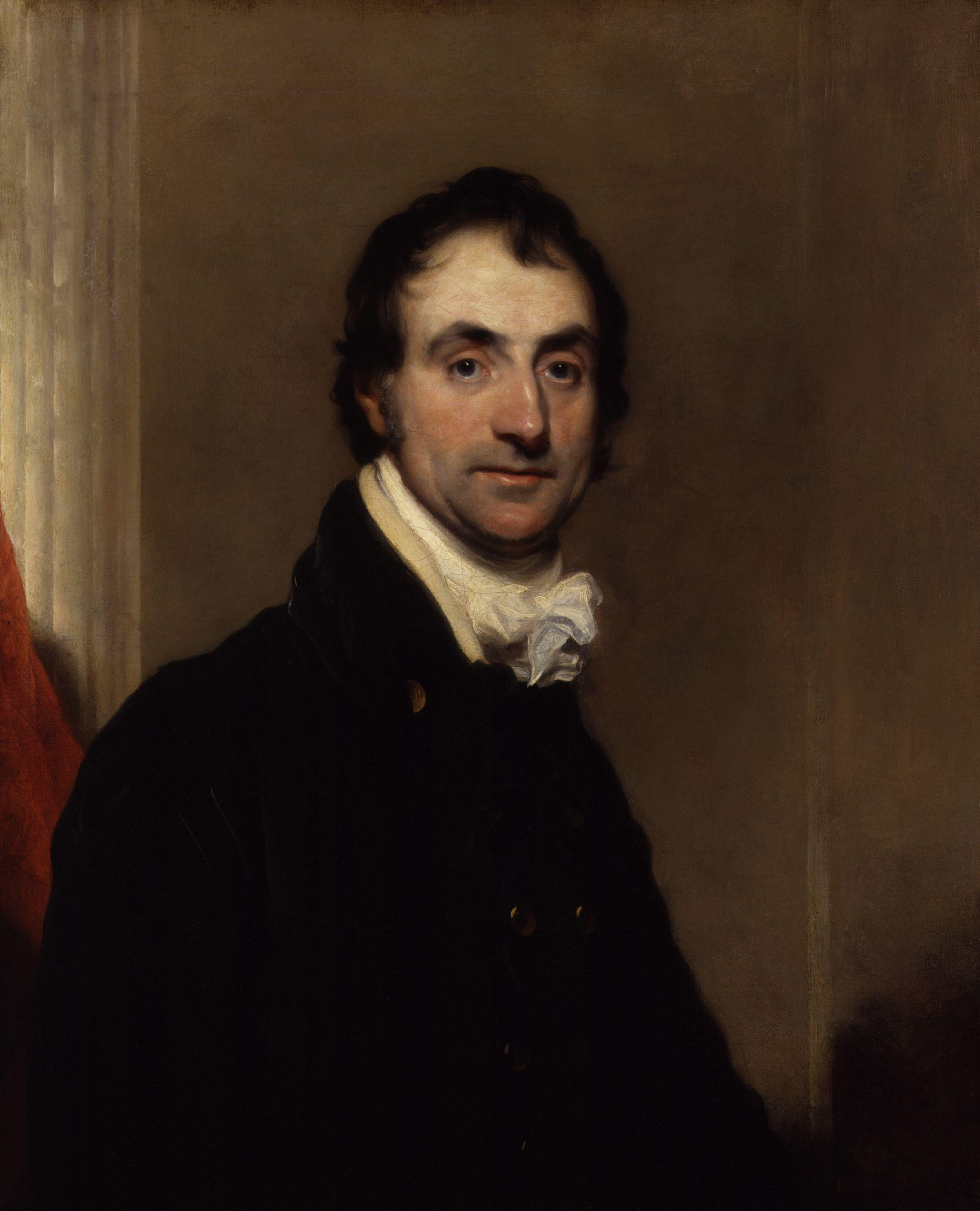 Sharon Turner, by Sir Martin Archer Shee (died 1850), given to the National Portrait Gallery, London in 1919. All images in this batch have been confirmed as author died before 1939 according to the official death date listed by the NPG.